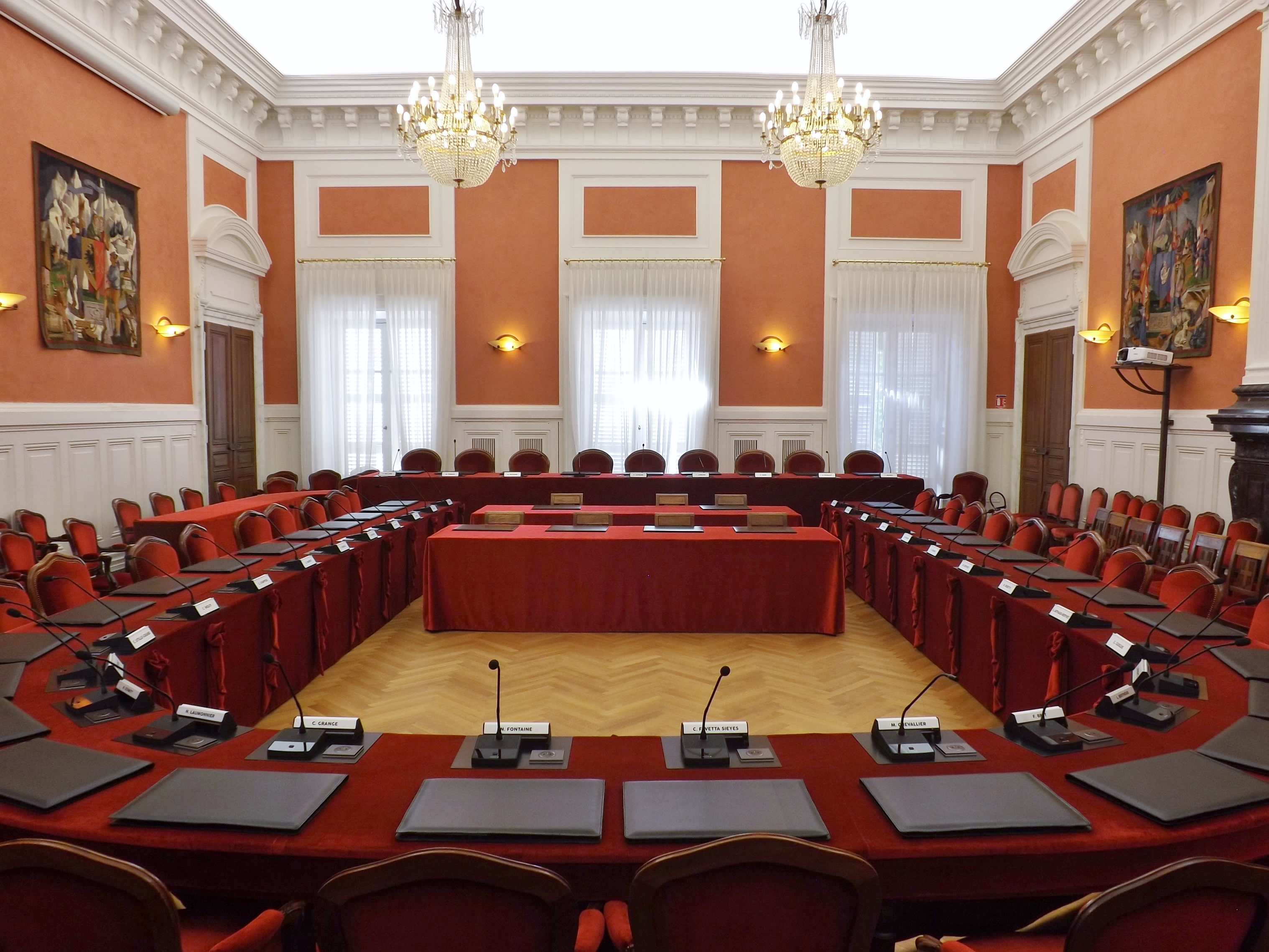 Sight of the public committee room of the Conseil départemental de la Savoie assembly of the department Savoie, in Chambéry castle, France.